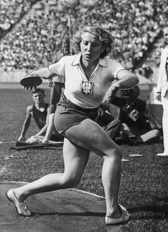 Photo of polish discus thrower Jadwiga Wajs (1937)